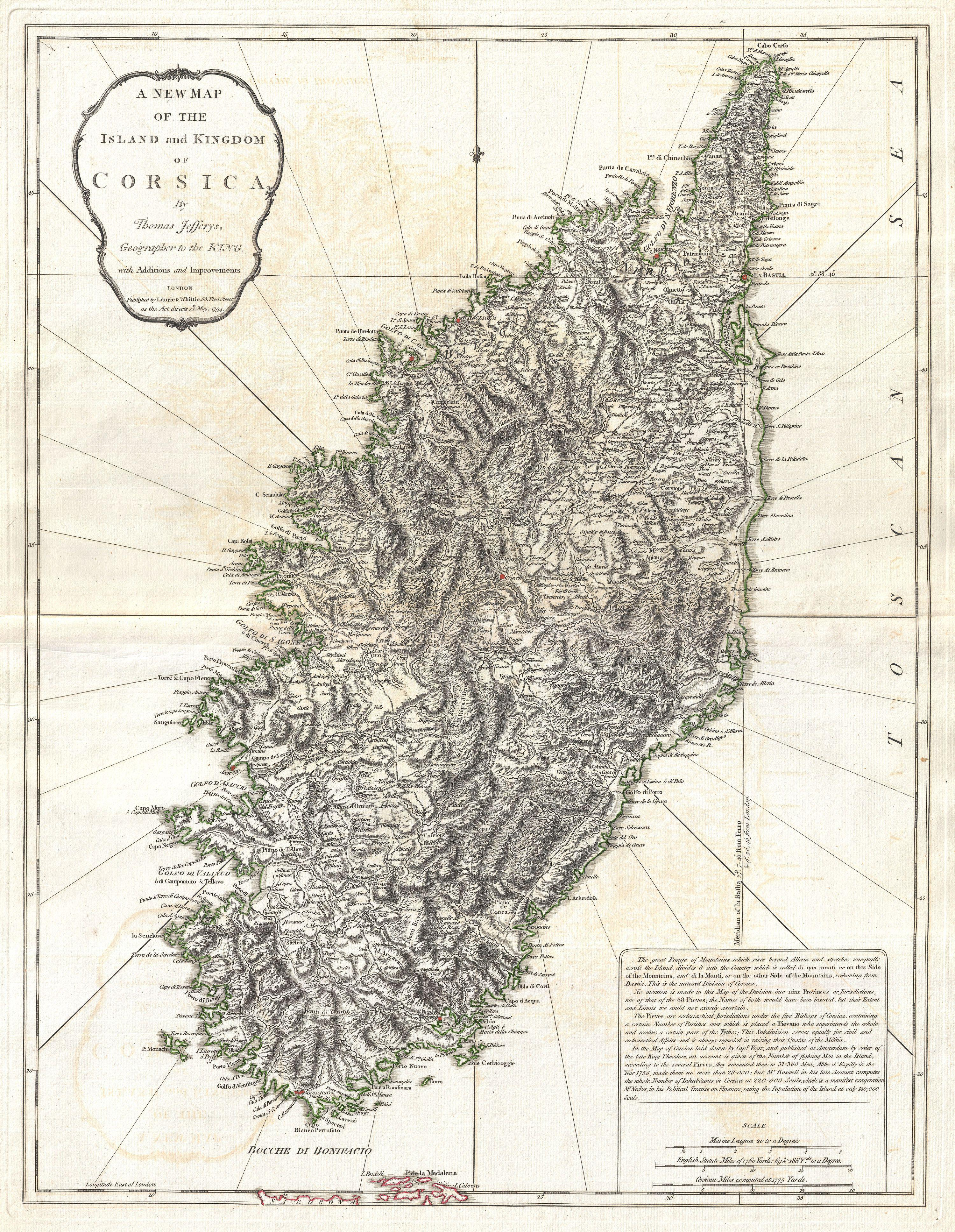 An extraordinary 1794 map of the Island and Kingdom of Corsica. Covers the entire island in extraordinary detail offering both topographical and political information. With its unique blend of dramatic mountains and stunning pristine beaches, Corsica is considered to be one of the world's most beautiful places. A note in the lower right hand quadrant discusses the geography and population of the island. Prepared by Thomas Jefferys and published by Laurie & Whittle in Kitchin's 1794 General Atlas .